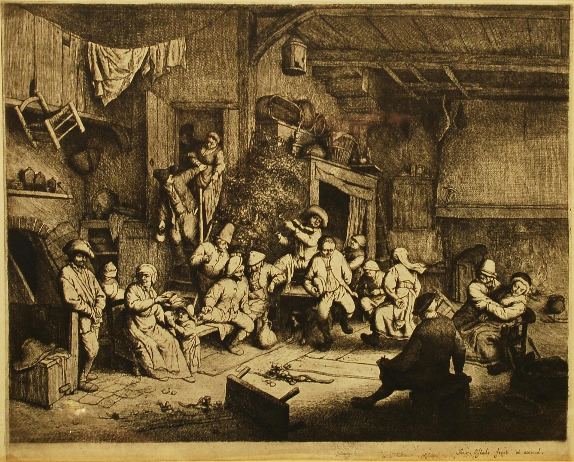 Dance at the inn